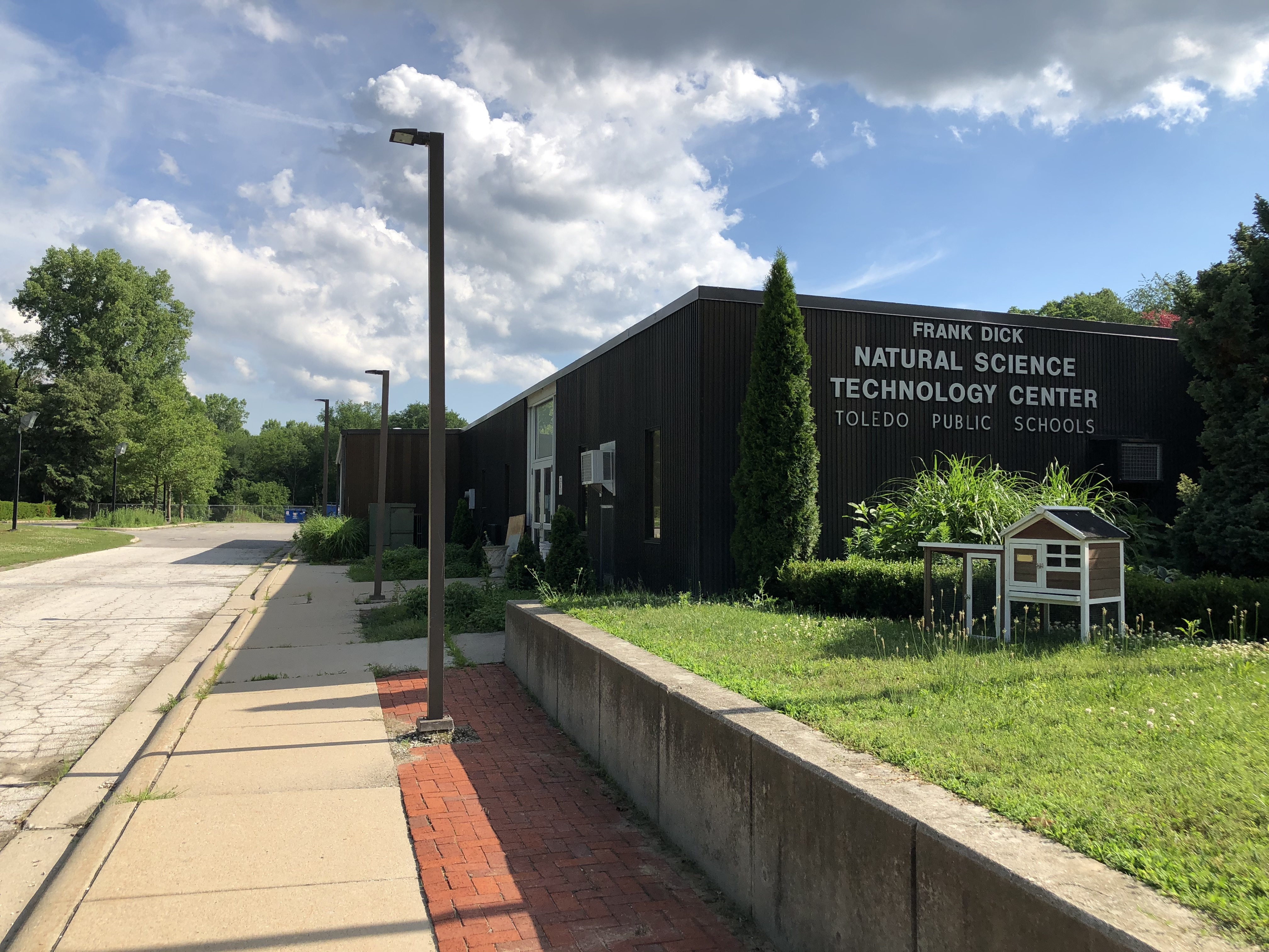 The Frank Dick Natural Science Technology Center in Toledo, Ohio, operated by the Toledo Public Schools.